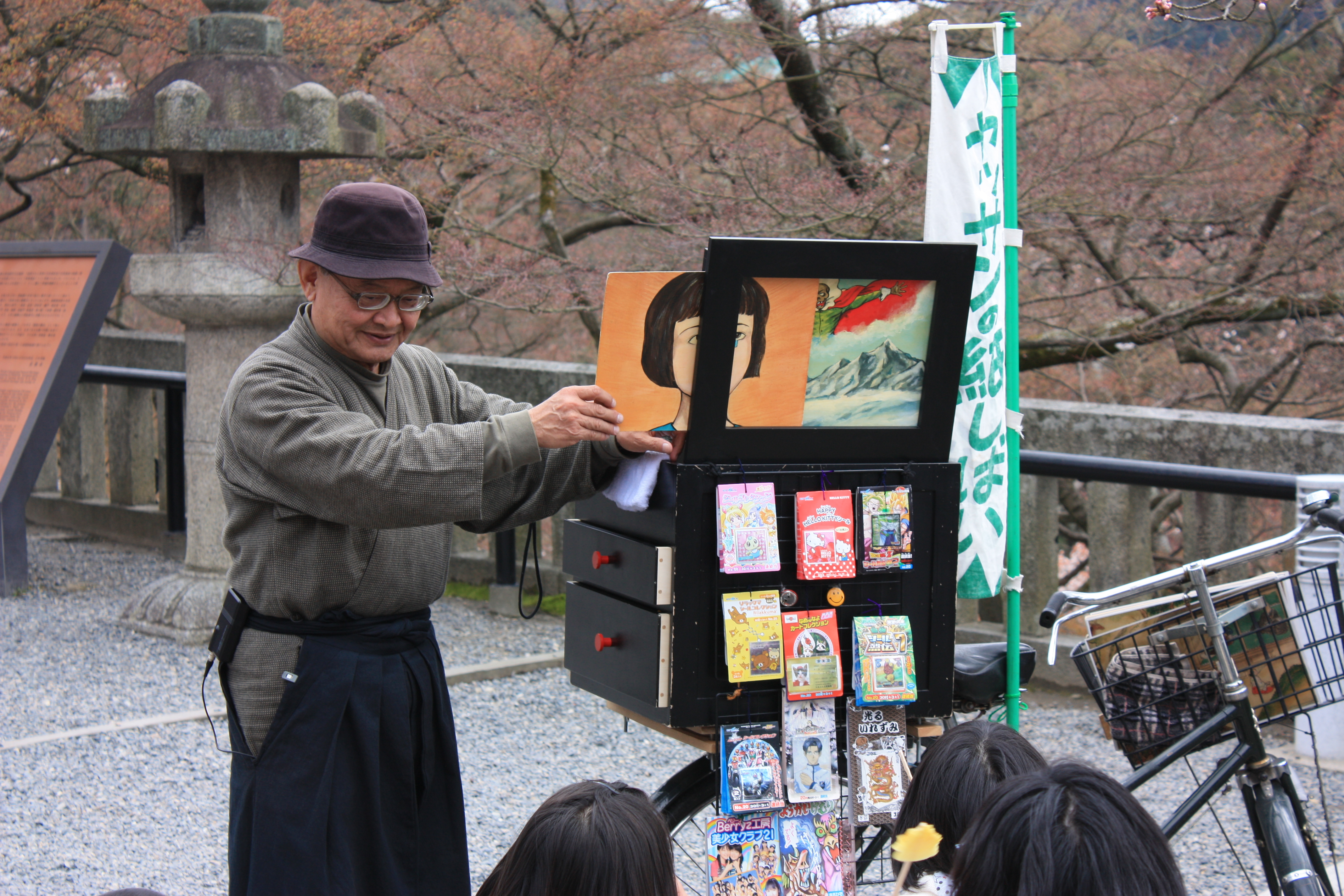 Kamishibai artist at Kiyomizu-dera, April 2, 2009. He is narrating a Ōgon Bat story.